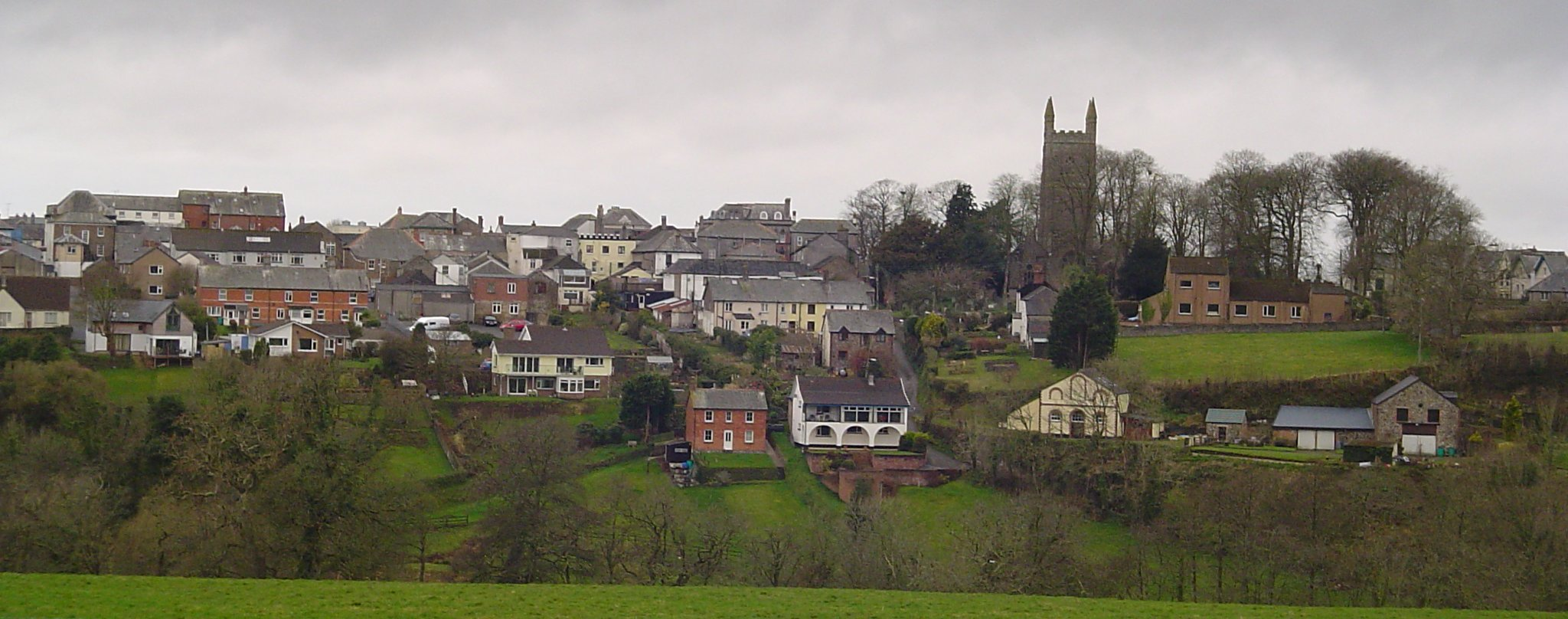 Holsworthy Overview